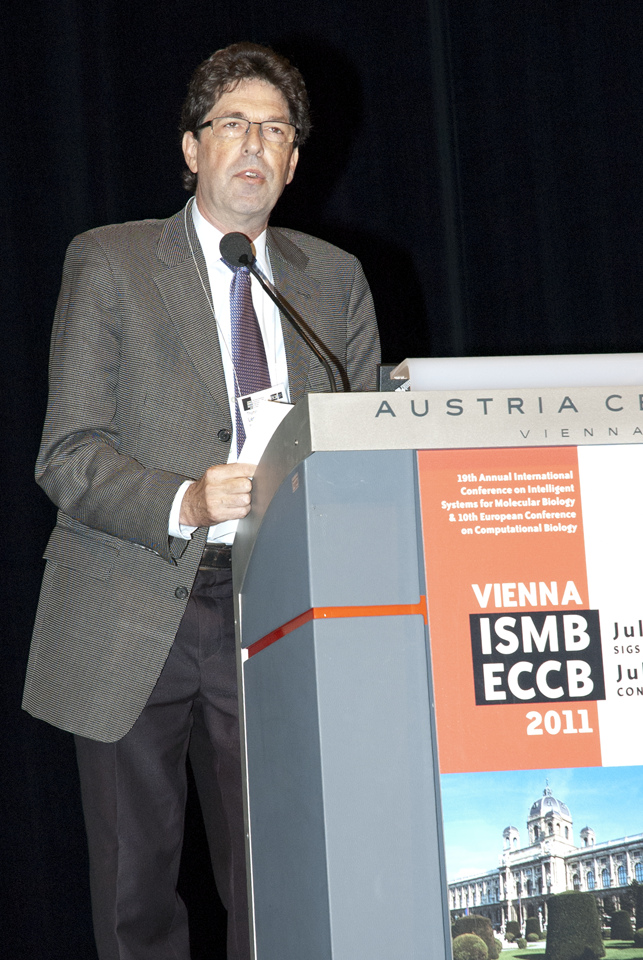 Thomas Lengauer Introducing Janet Thornton